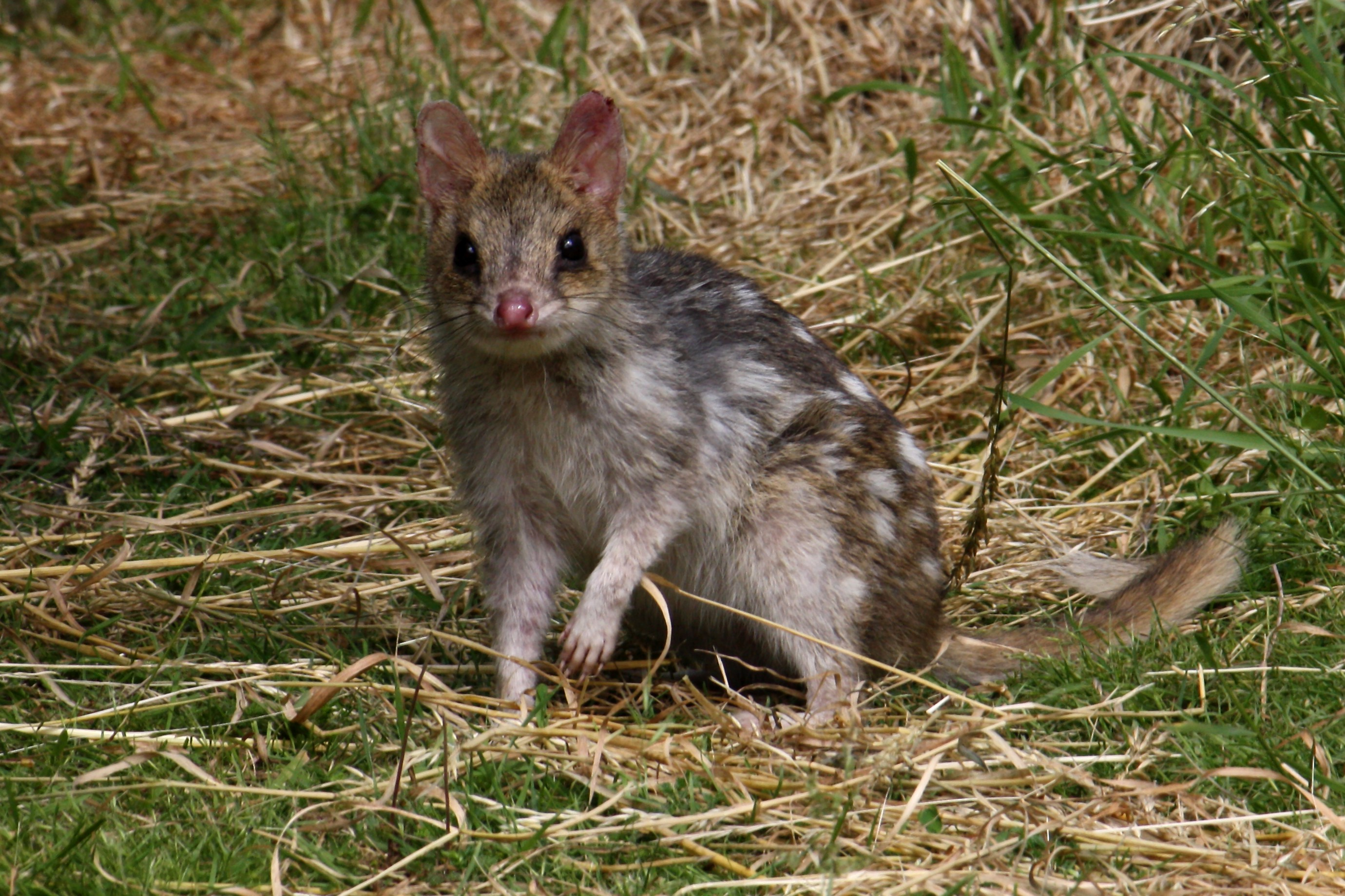 A fawn morph of the Eastern Quoll (Dasyurus viverrinus). Photographed in Tasmania.